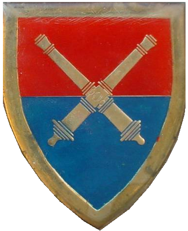 SADF School of Artillery emblem